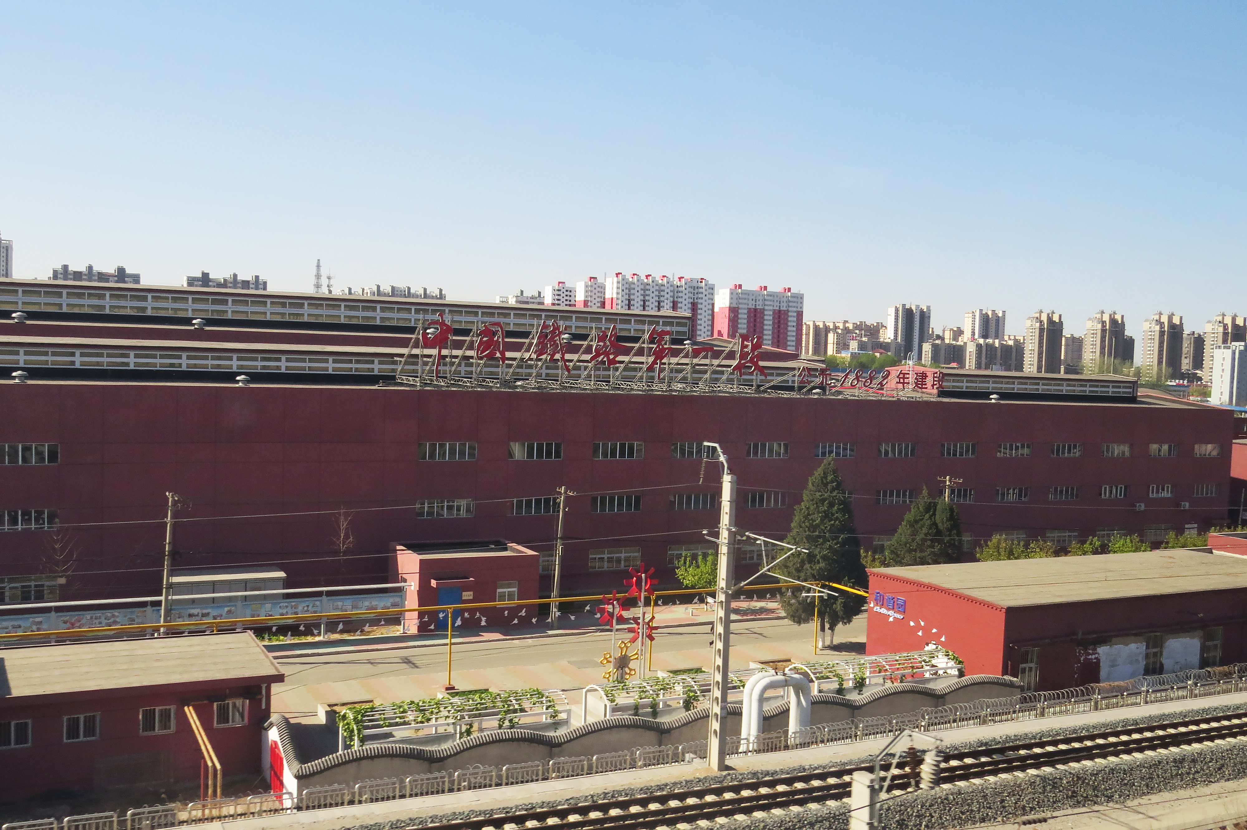 "1st Depot of China Railways" - taken from D6611 Beijing-Tangshan train.